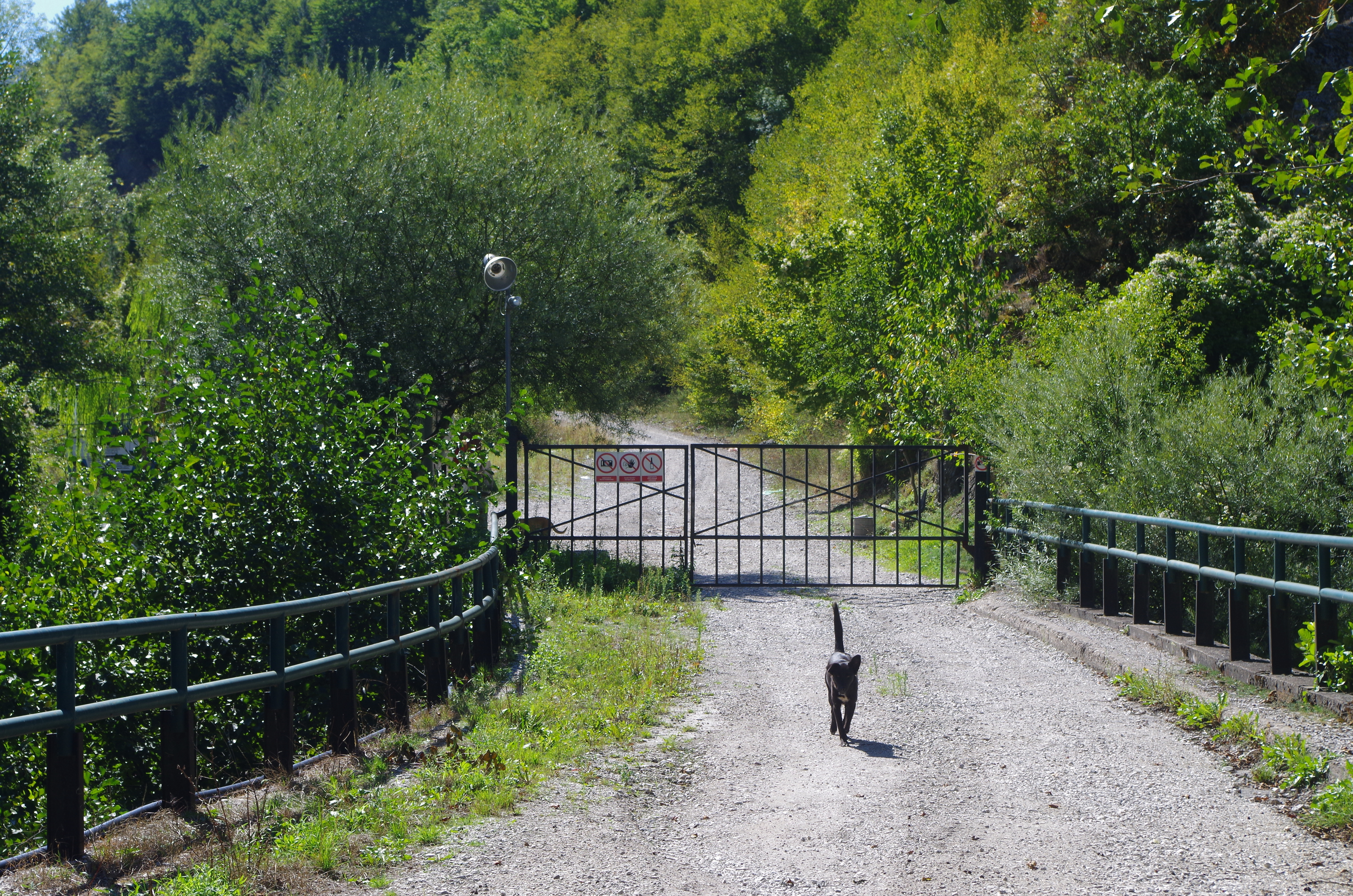 Entrance of the Allchar deposit